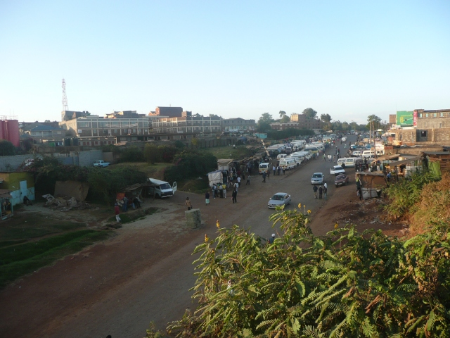 Kikuyu town, Kenya, january 2009. Photo Thuku wa Njuguna